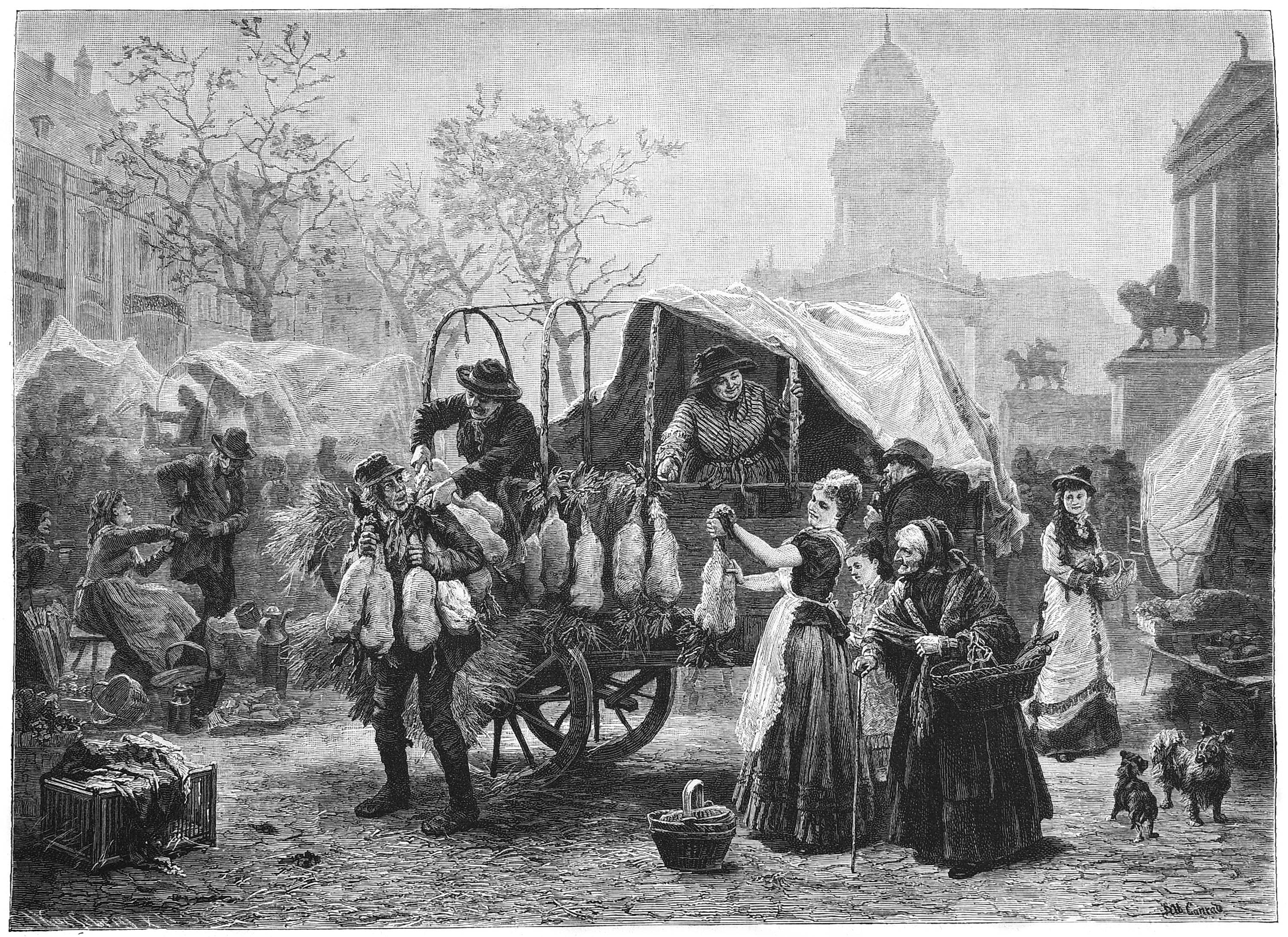 caption: "Berliner Gänsemarkt. Von Albert Conrad. Nach einer Photographie aus dem Verlage der „Photographischen Gesellschaft“ in Berlin."